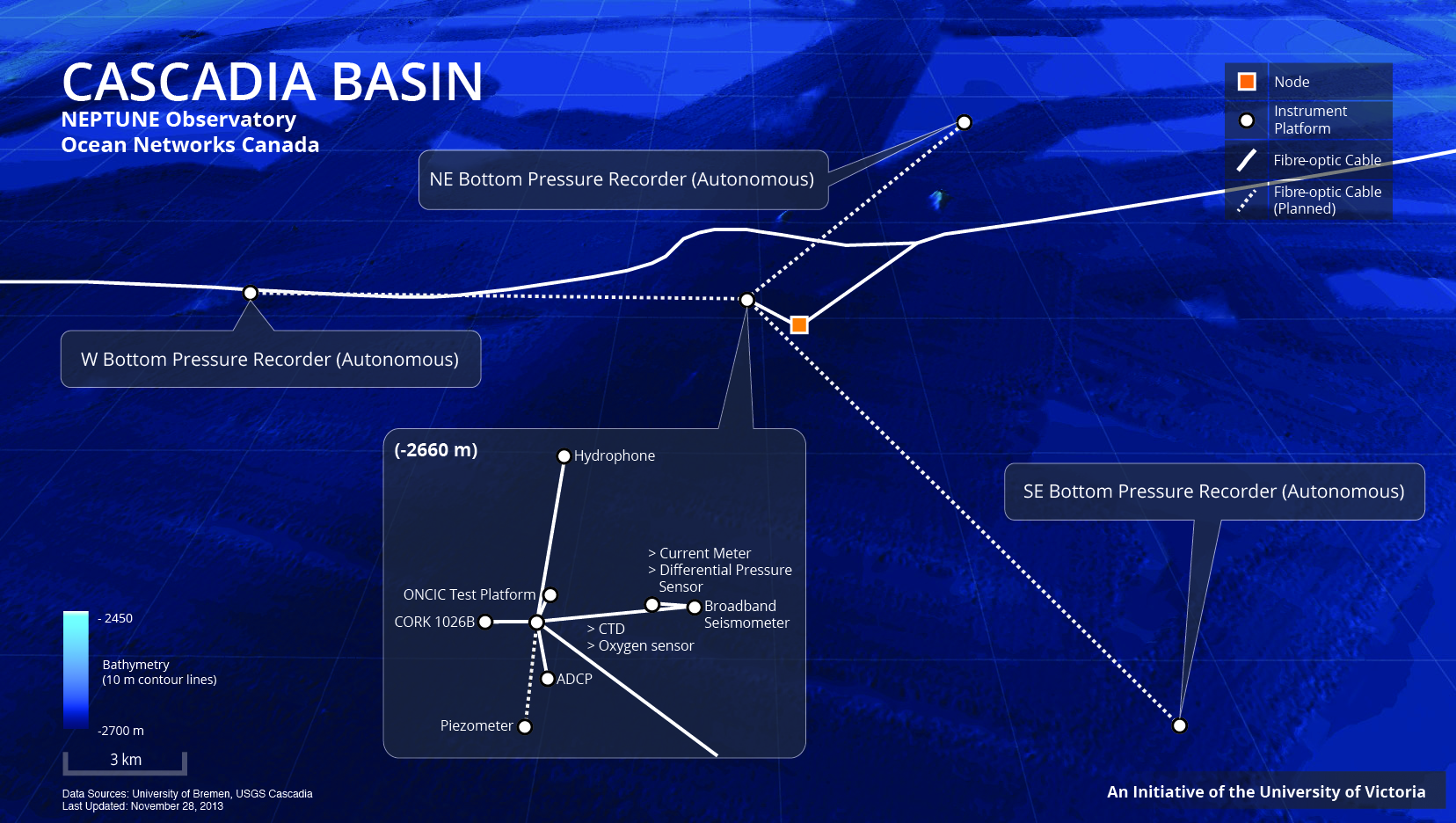 2013 layout of installations at Ocean Networks Canada's Cascadia Basin site on the NEPTUNE observatory.